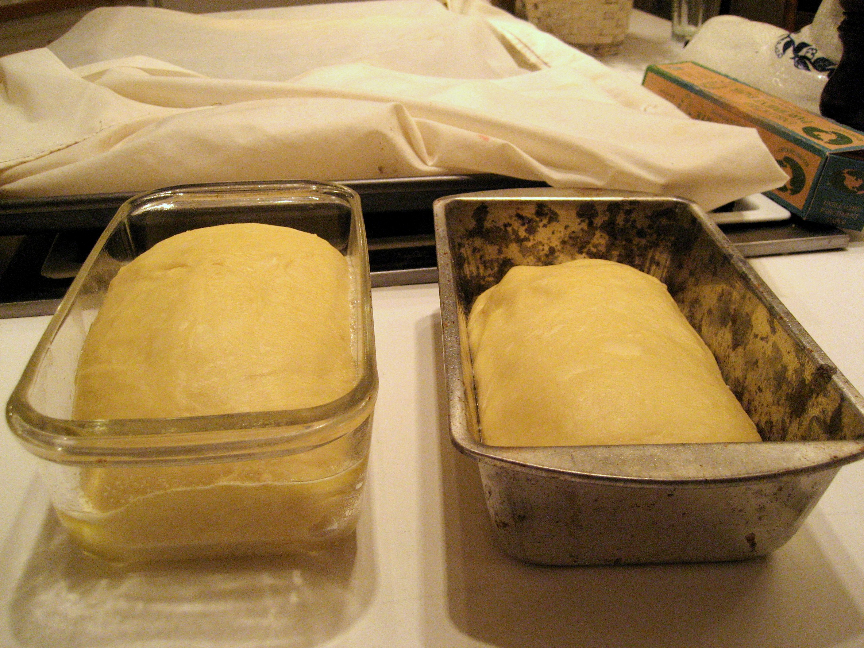 Bread pan.